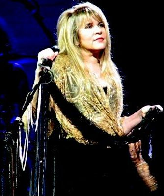 Stevie Nicks in concert